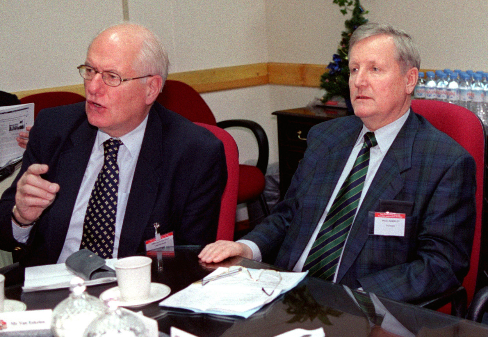 Willem Van Eekelen, a Member of a Parliament Subcommittee from the Netherlands, Peter Zumkley, and the North Atlantic Treaty Organization (NATO) Parliamentary Assembly Subcommittee on Transatlantic Defense and Security Cooperation discuss the Incirlik Air Base mission.